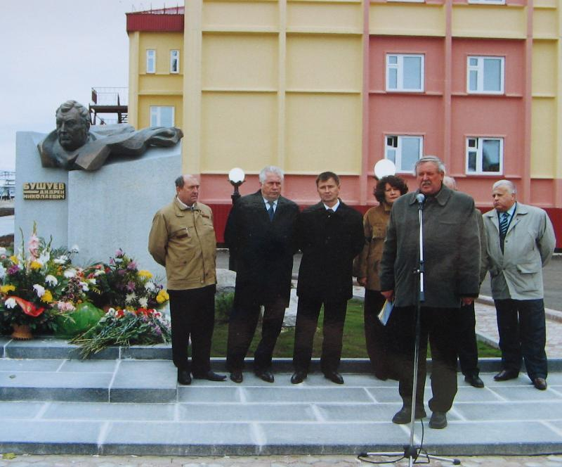 Церемония открытия памятника Андрею Николаевичу Бушуеву, генеральному директору уренгойского филиала ОАО «Стройтрансгаз»